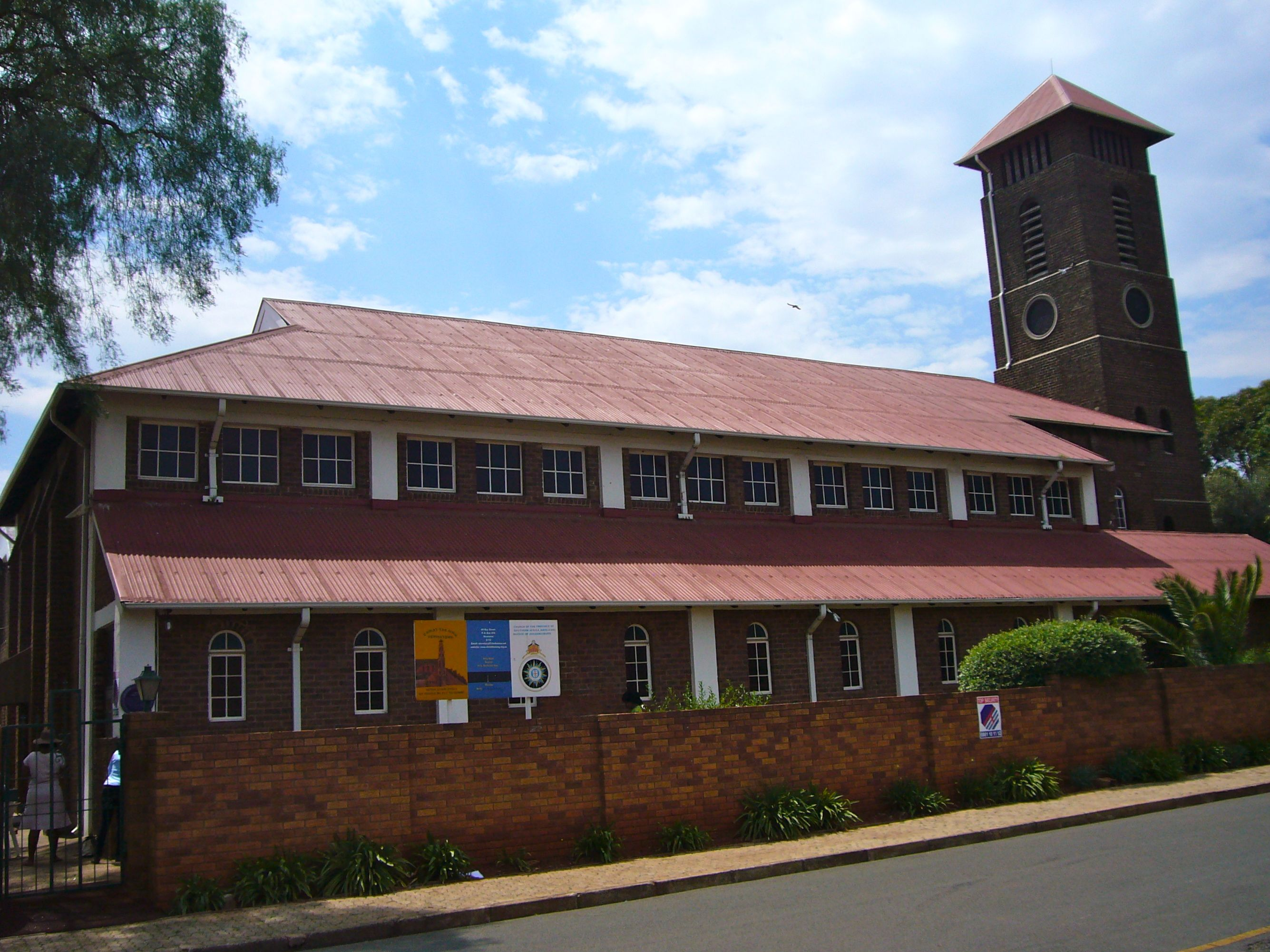 Church of Christ the King, Sophiatown, Johannesburg, South Africa